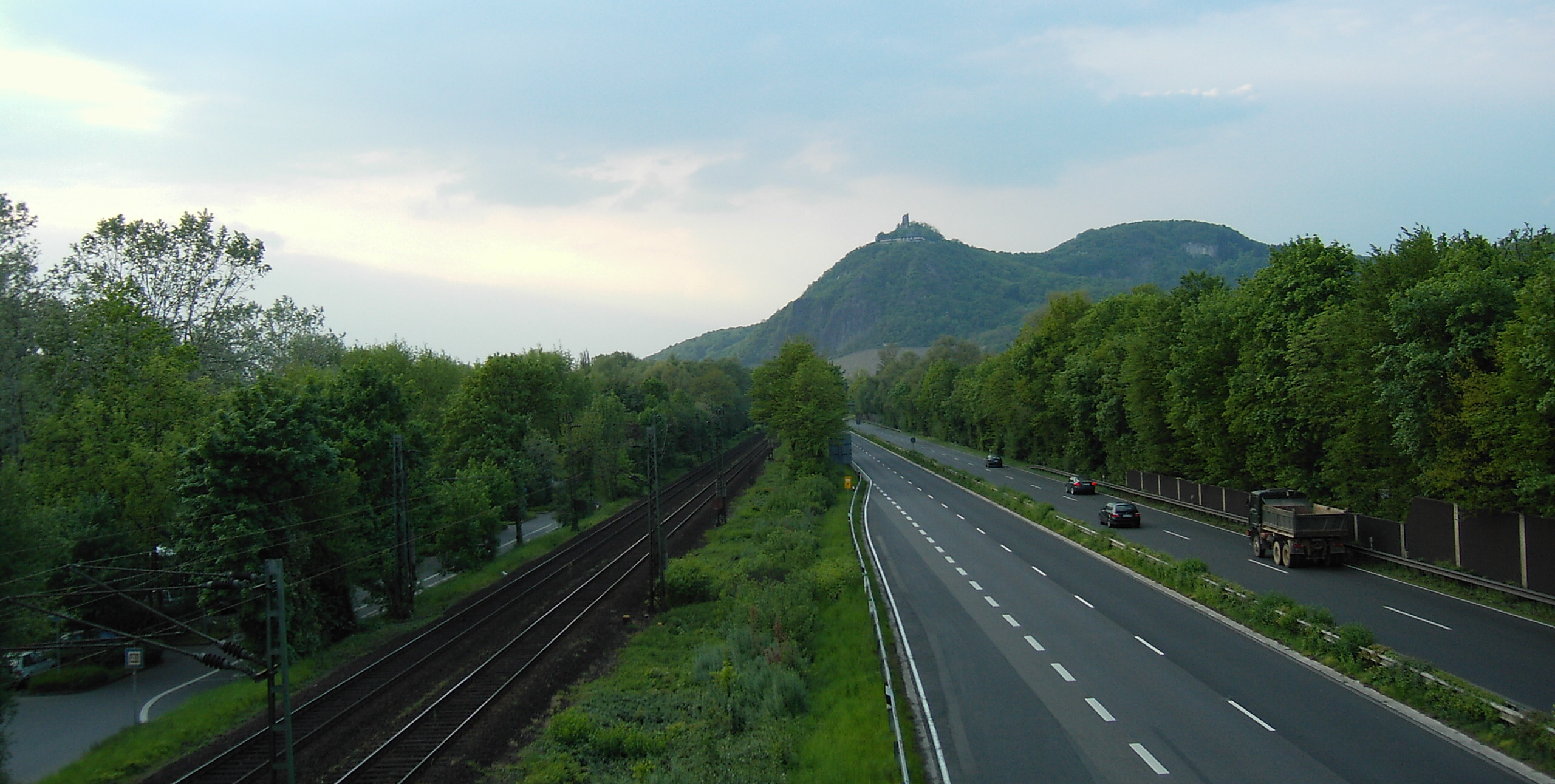 Federal road 42 in Bad Honnef. View from a footbridge. In the background the Drachenfels.